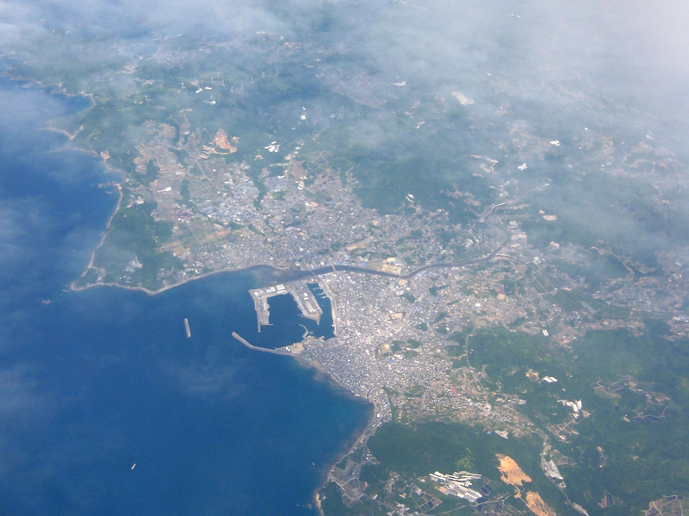 Aerial Photo of Makurazaki City in Kagoshima, Japan